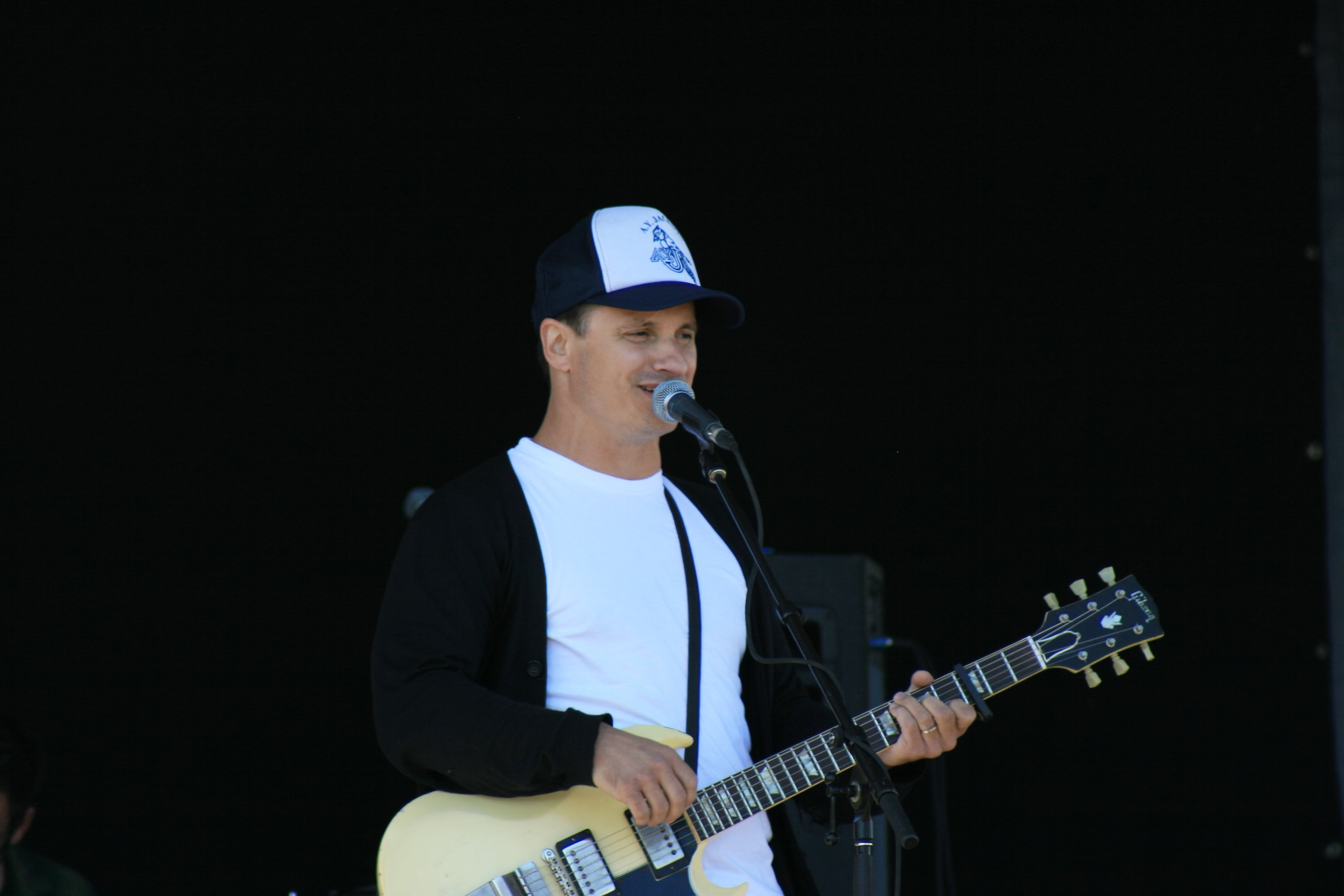 Jim Bryson